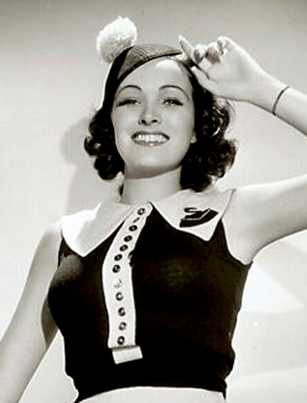 Publicity photo of Priscilla Lawson